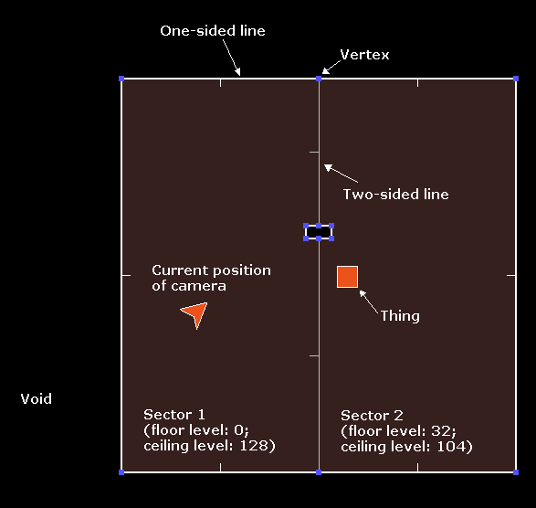 Description of the Doom engine map structure